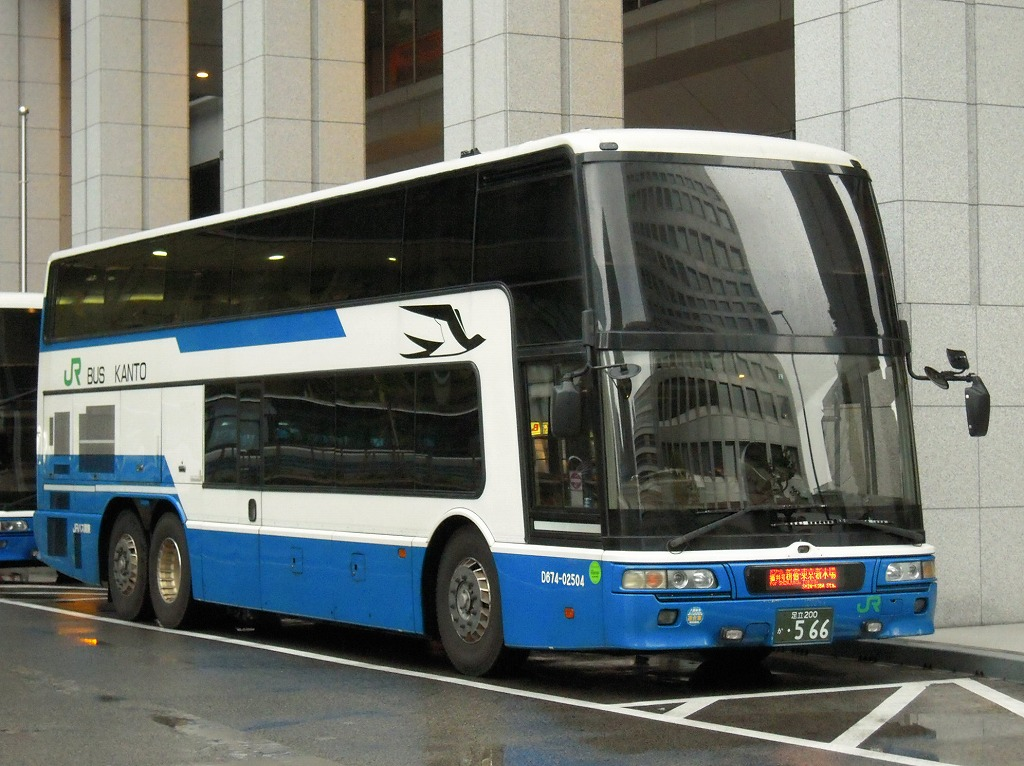 JR bus Kanto Mitsubishi Fuso Aero King(MU612TX) Highwaybus "Dream Fukui"